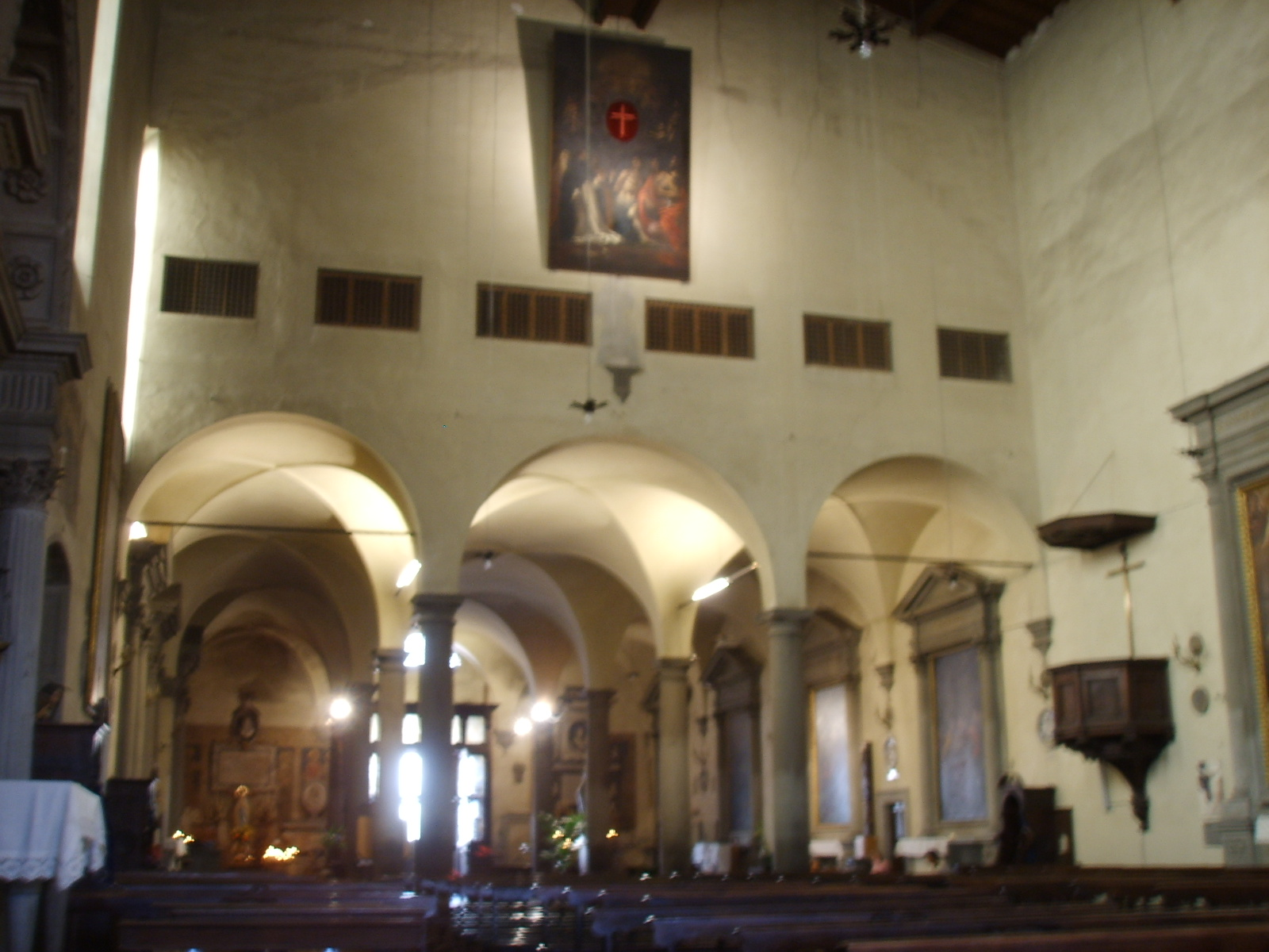 San Felice in Piazza church, in Florence, Italy